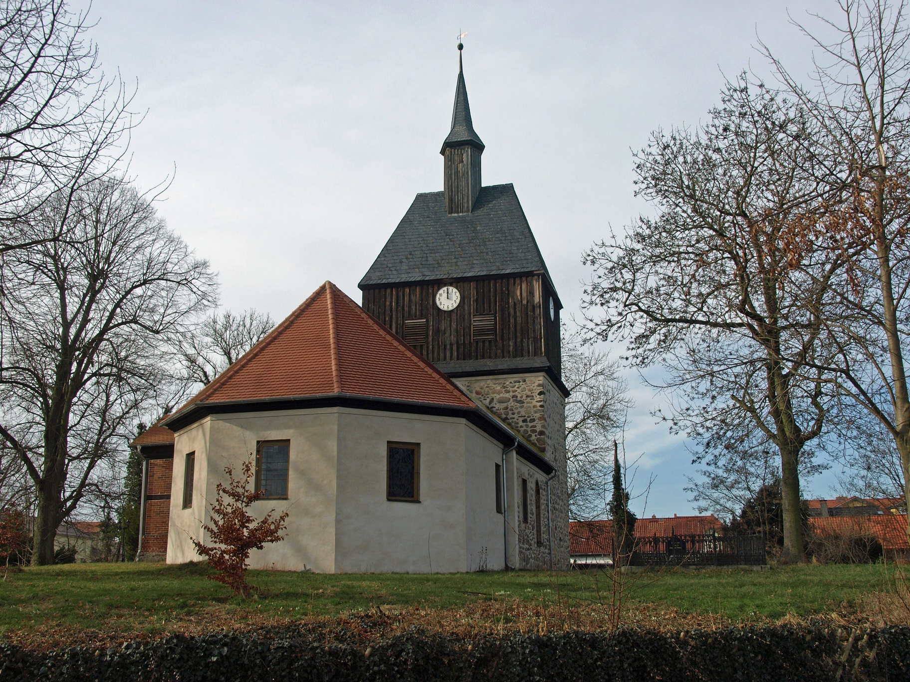 Church of Wandlitz, Barnim district, Brandenburg state, Germany